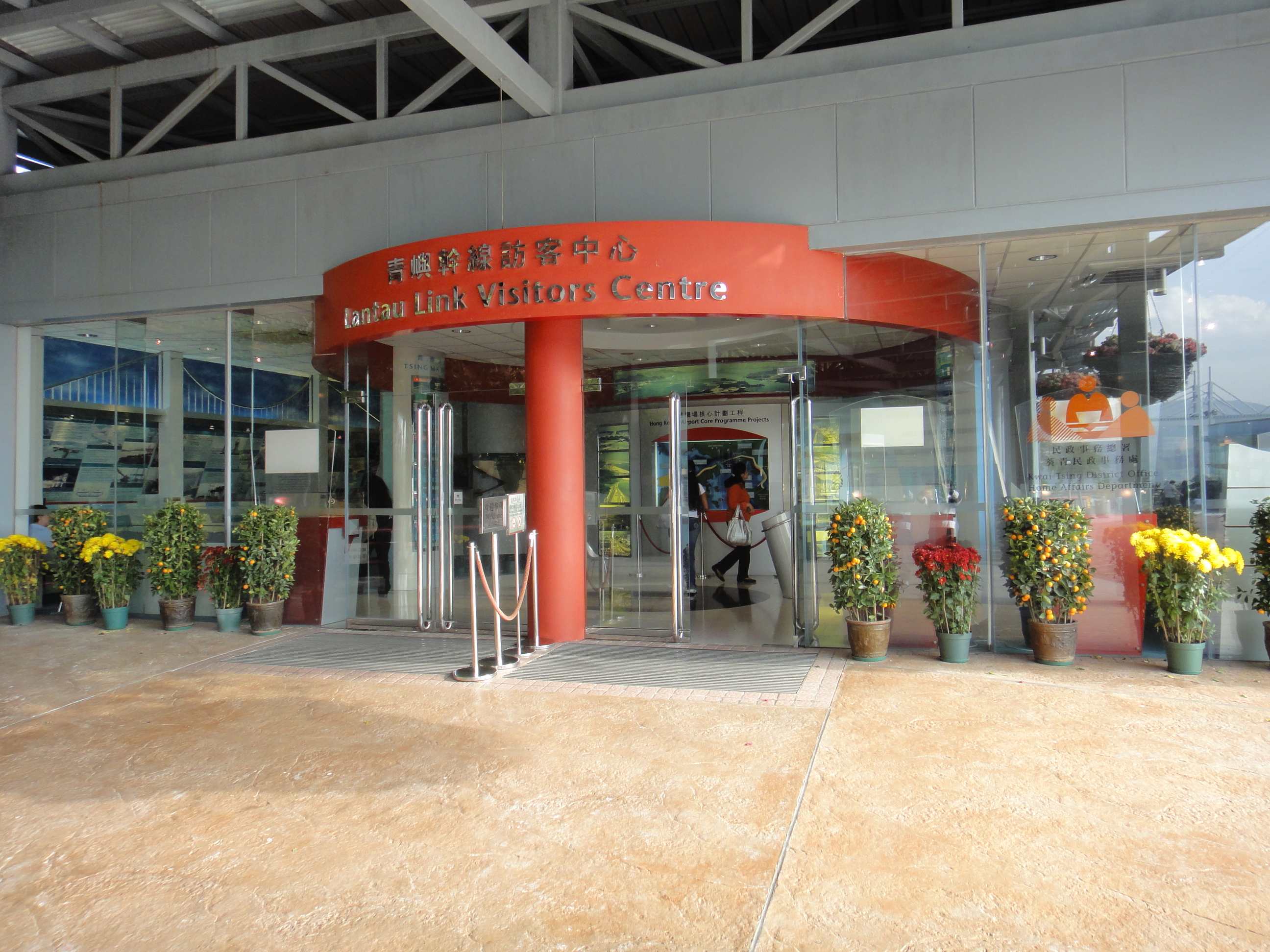 Lantau Link Visitors Center